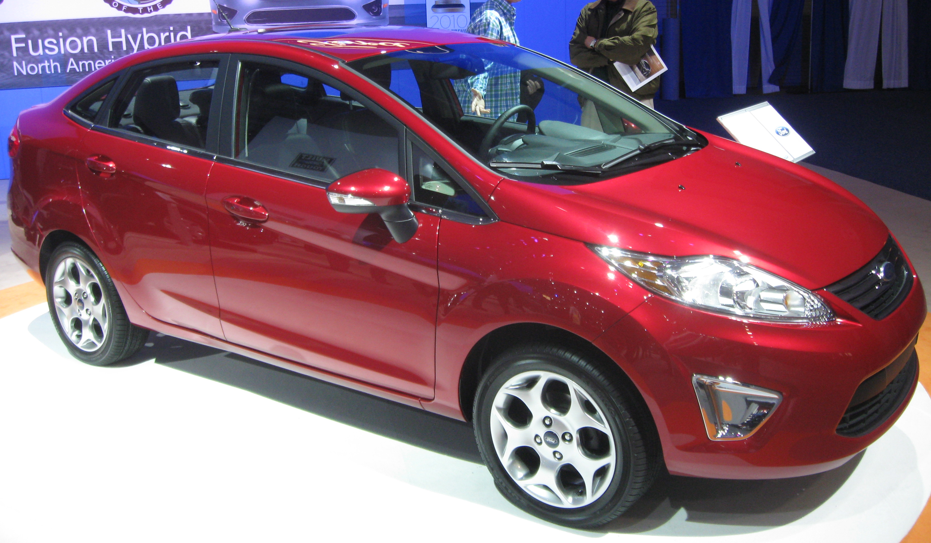 2011 Ford Fiesta photographed at the 2010 Washington Auto Show.